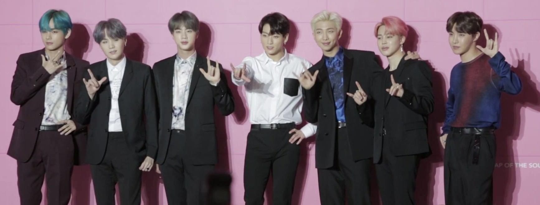 BTS at "Map of the Soul - Persona" global press conference, 17 April 2019